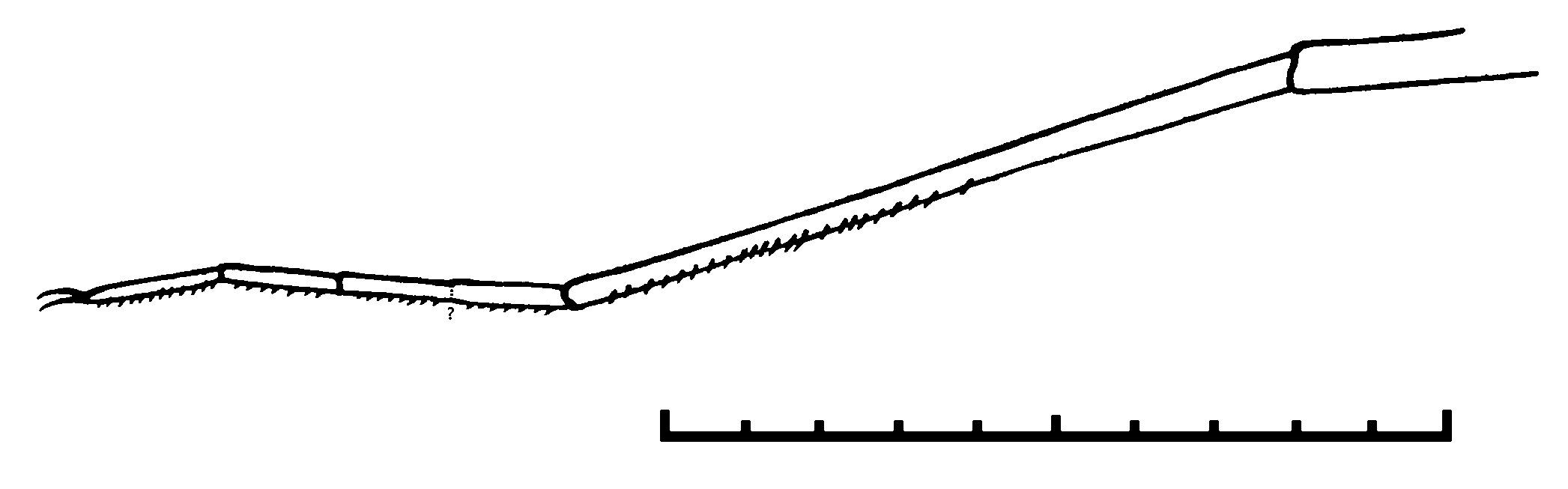 Tarsophlebia eximia (Odonata: Tarsophlebioptera: Tarsophlebiidae), Upper Jurassic, Solnhofen Plattenkalk, holotype BSPGM AS VI 44b, right hind leg, scale 10 mm, drawing by G. Bechly